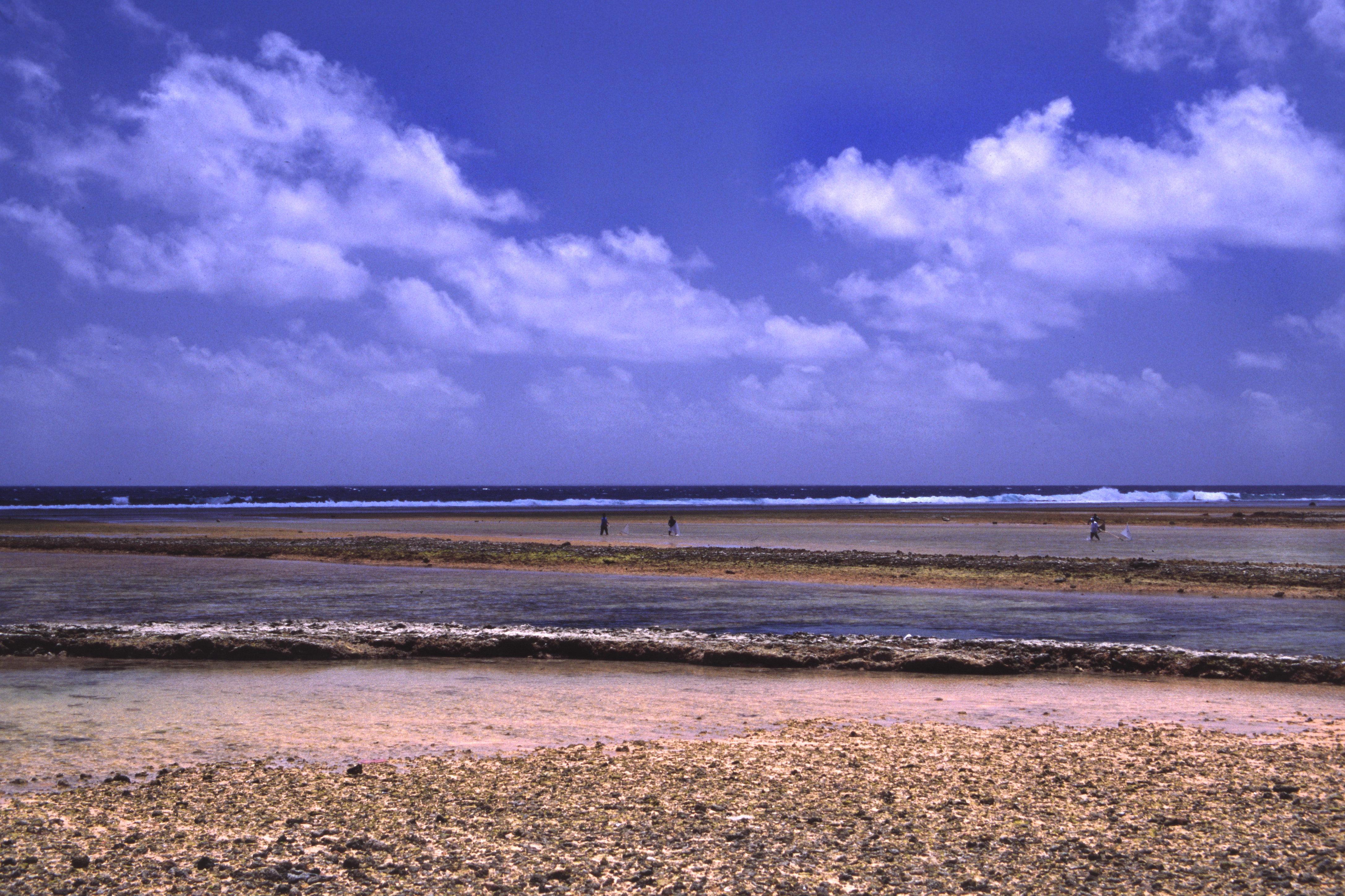 [scanned slide from March 2000]